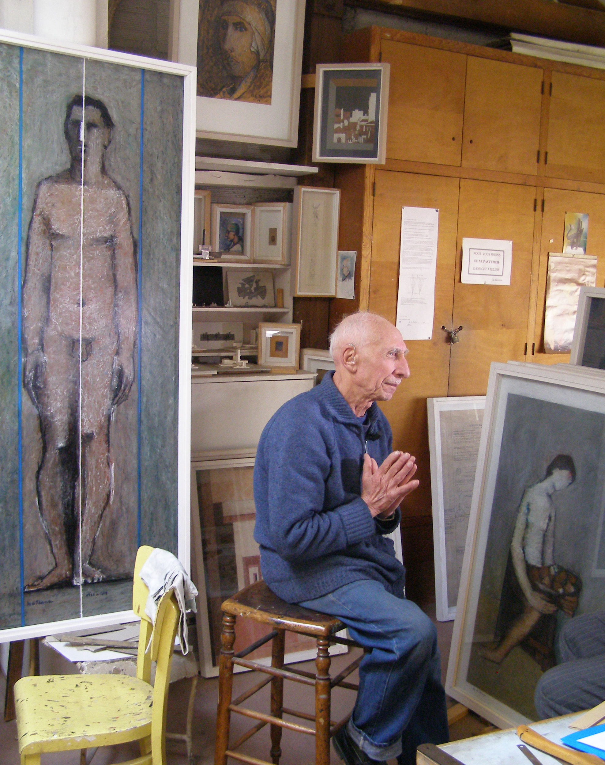 The portrait of Marino Di Teana Painter